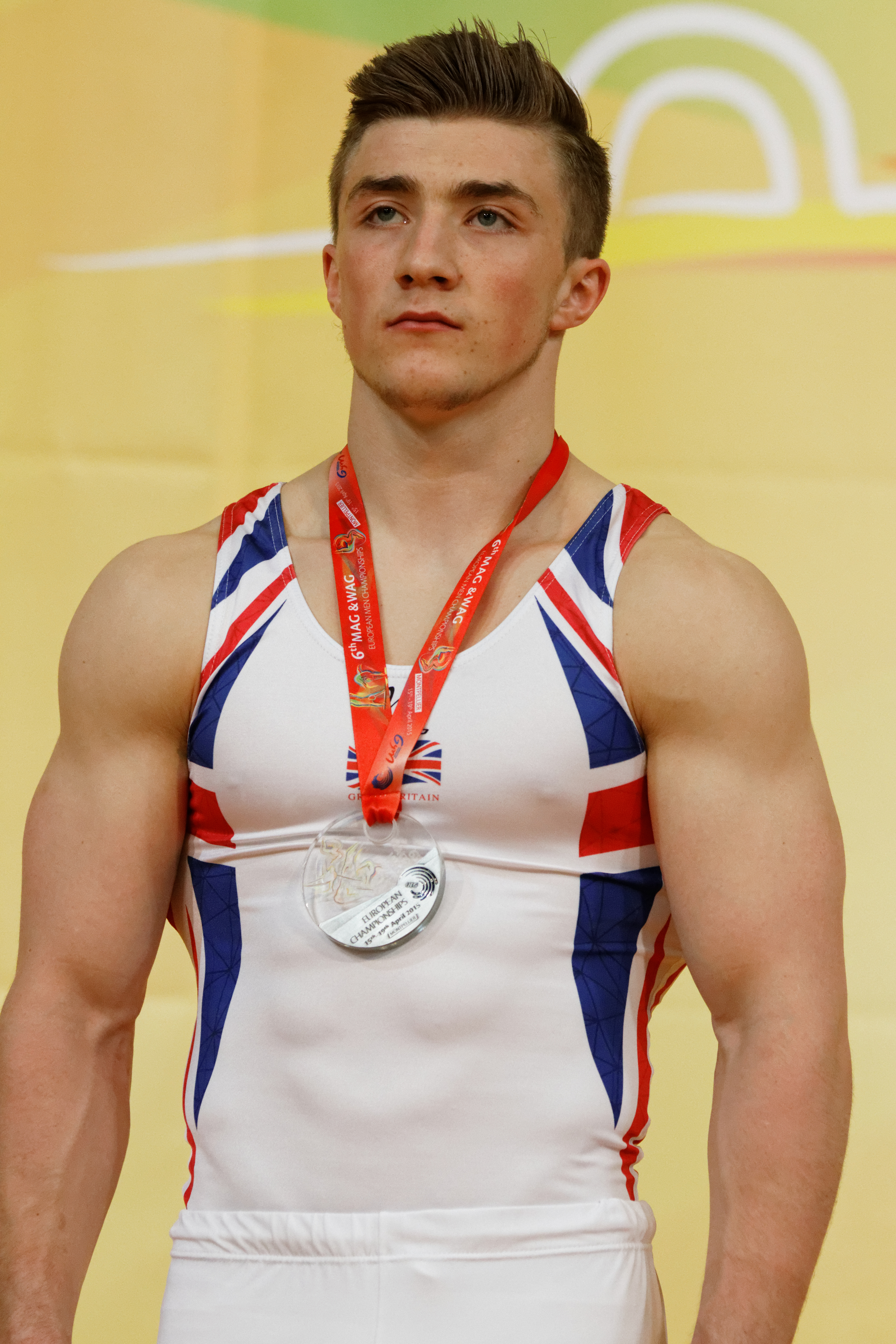 2015 European Artistic Gymnastics Championships.